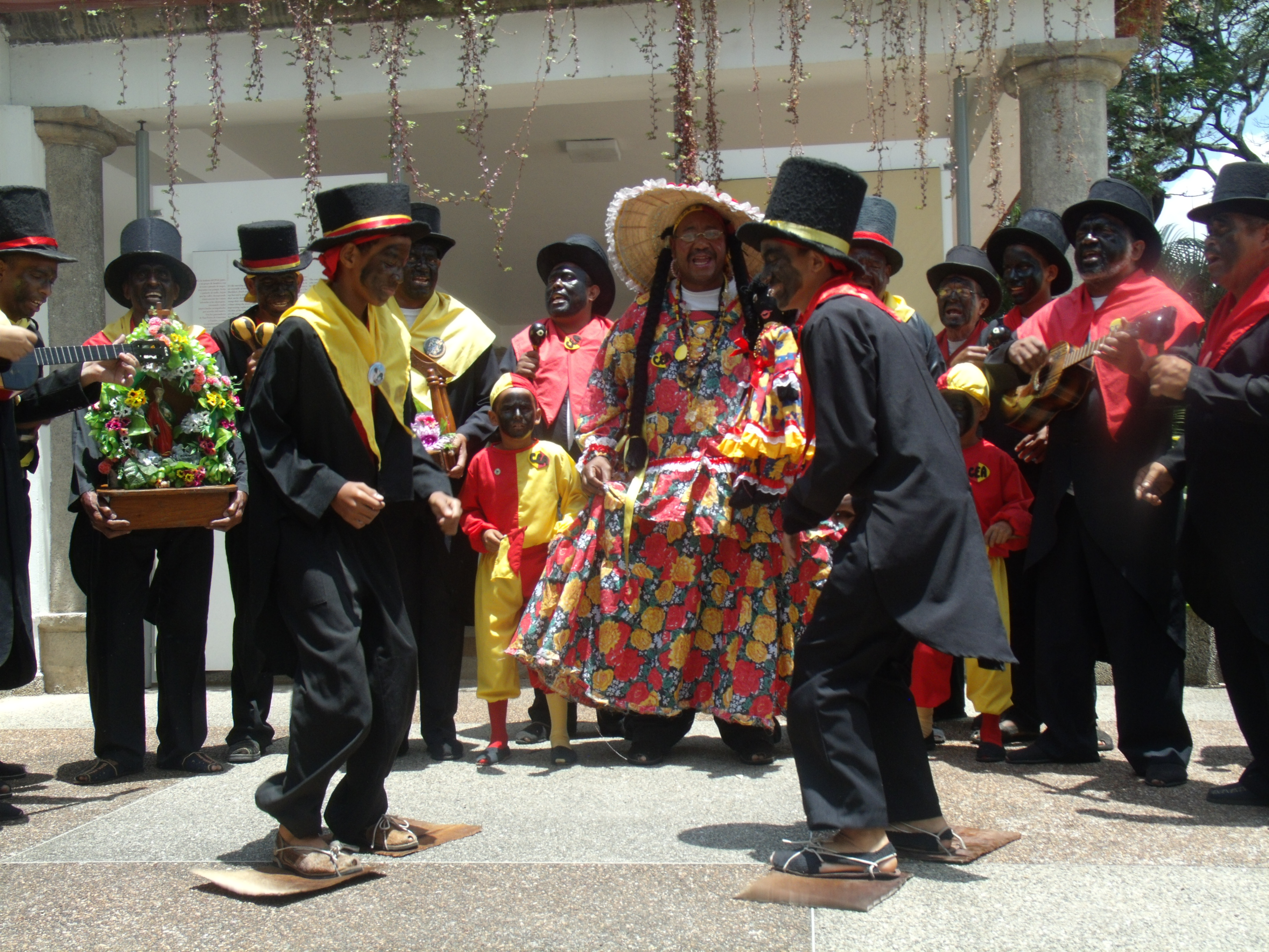 Baile de la Parranda de san Pedro, tradición de los Pueblos de Guatire y Guarenas en Venezuela, originado en una promesa de una Sra. llamada Maria Ignacia por la sanación de su hija Rosa Ignacia a traves de San Pedro Apóstol, el baile con indumentarias de la época se cumple cada 29 de junio dia del Santo. Ya es Patrimonio Cultural Inmaterial de la Humanidad segun certificación de la UNESCO